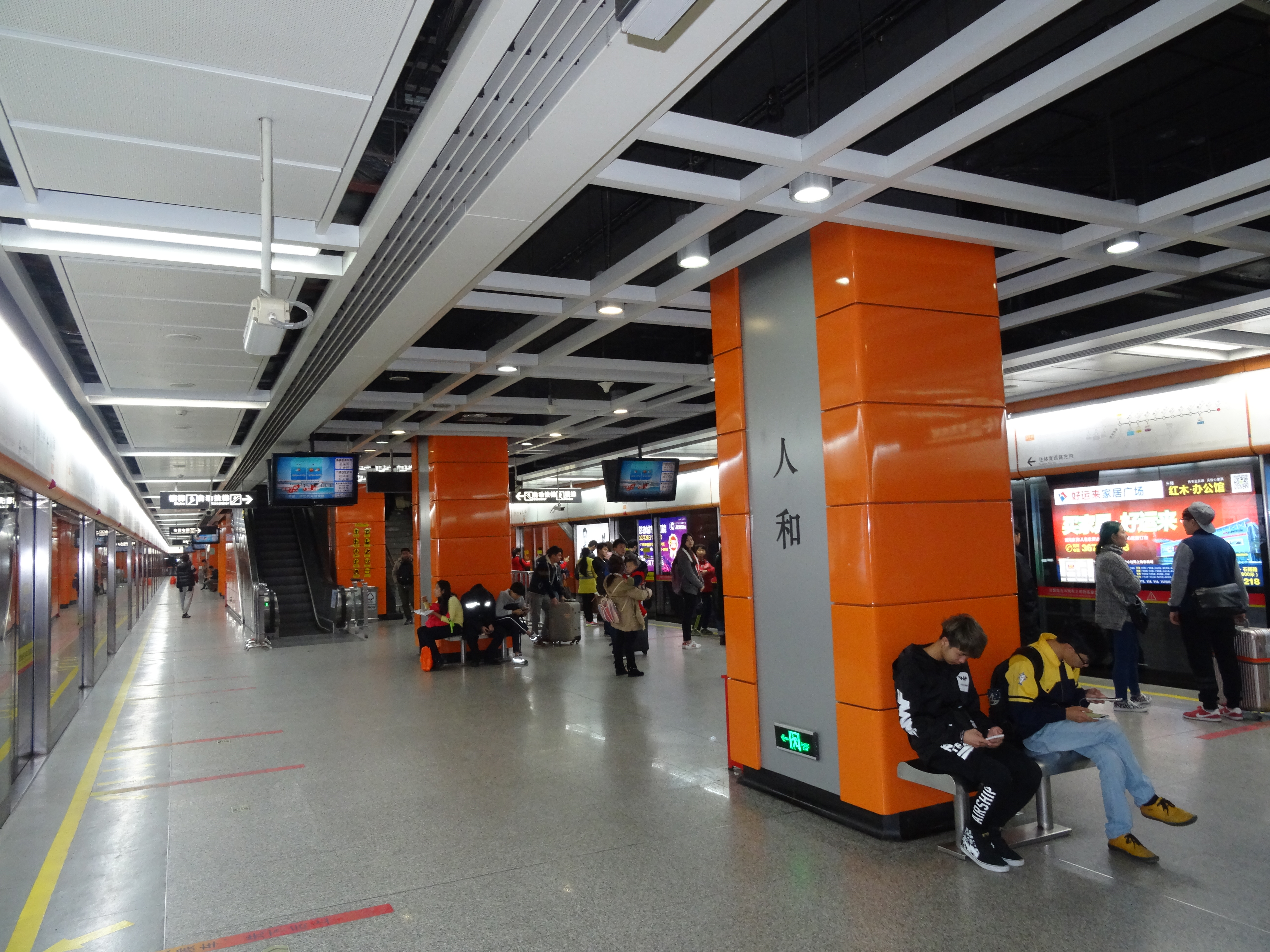 人和站嘅月台